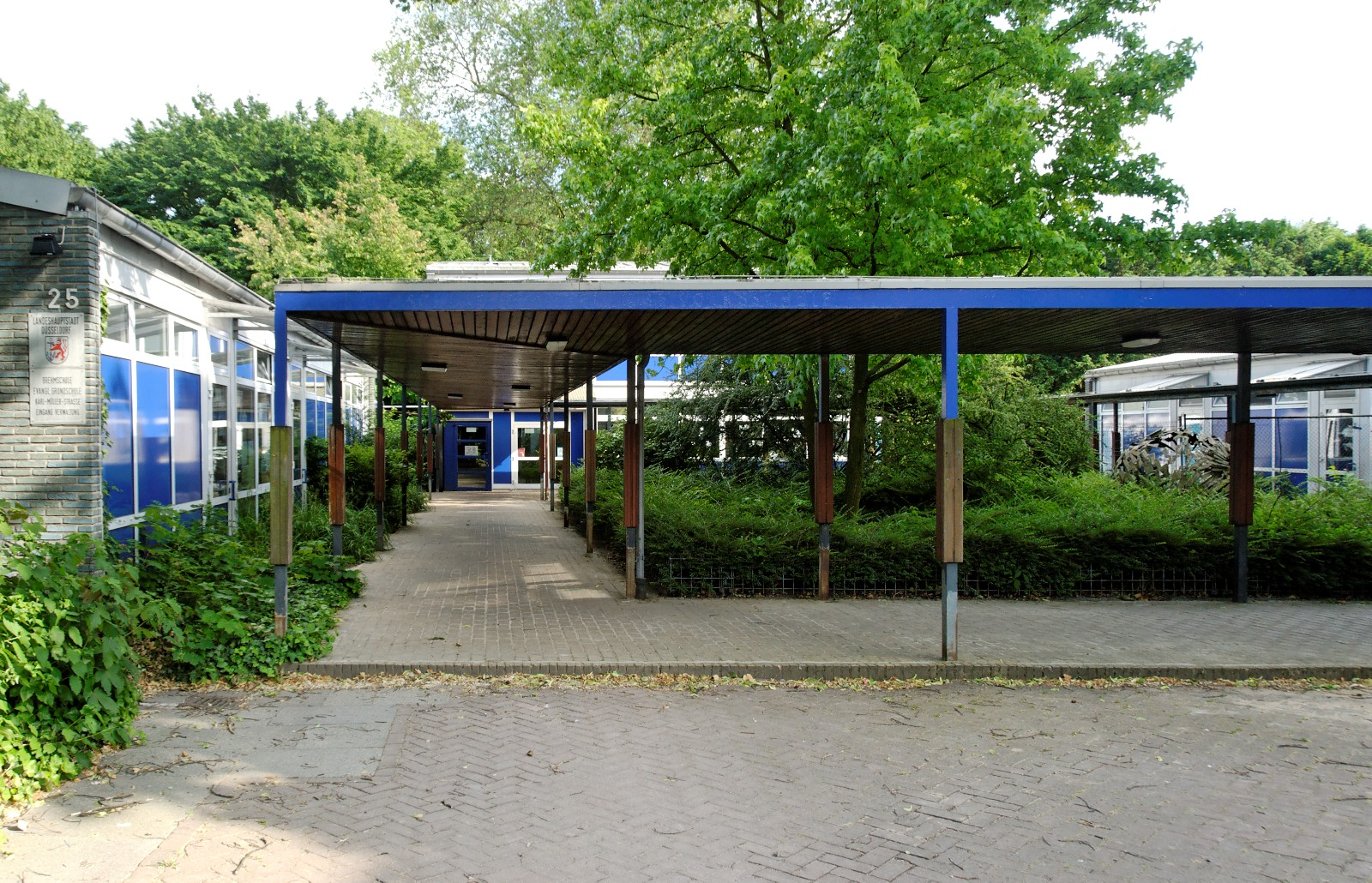 Brehm School in Düsseldorf-Düsseltal, Germany